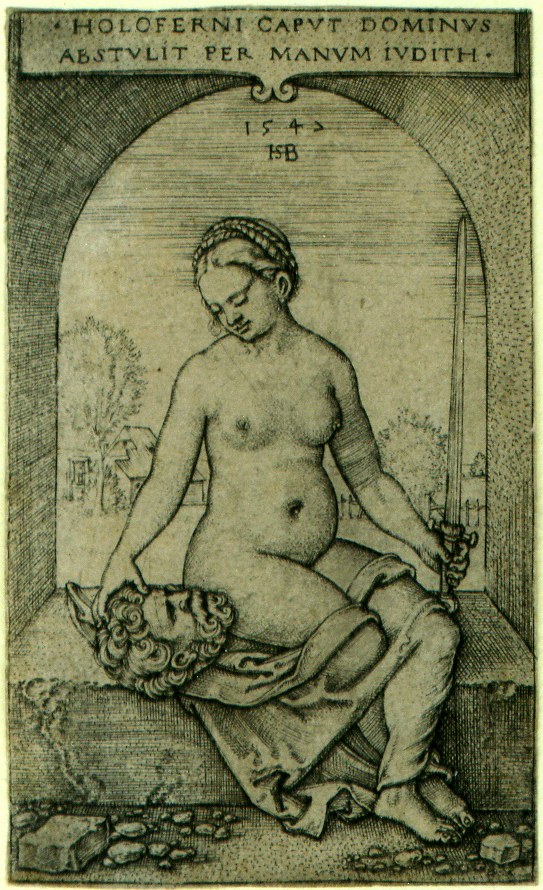 Judith seated in an arch, sword in hand, contemplating the head of Holofernes